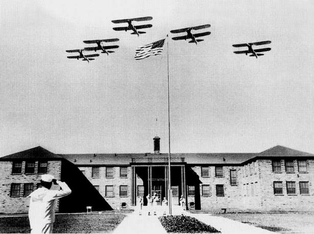 A sailor salutes the flag as a flight of trainer aircraft pass over the Administration Building of NAS Ottumwa. Photo taken near Ottumwa, Iowa sometime in the mid-1940s